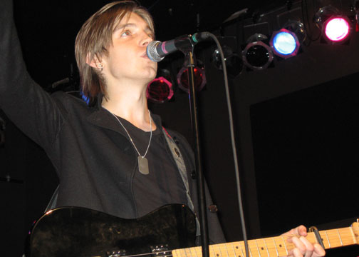 Alex Band at Richmond, VA on 11.10.07.